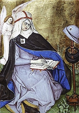 Full page miniature of St Bridget of Sweden depicted with her attributes in a 1476 breviary for birgittine use.